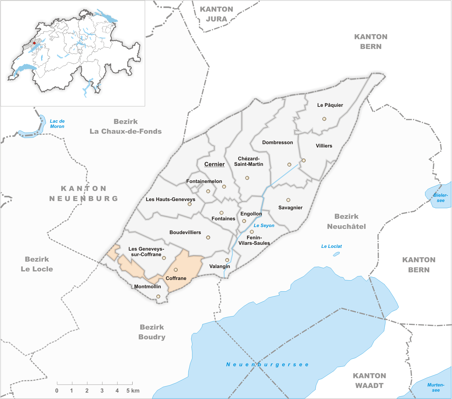 Municipality Coffrane